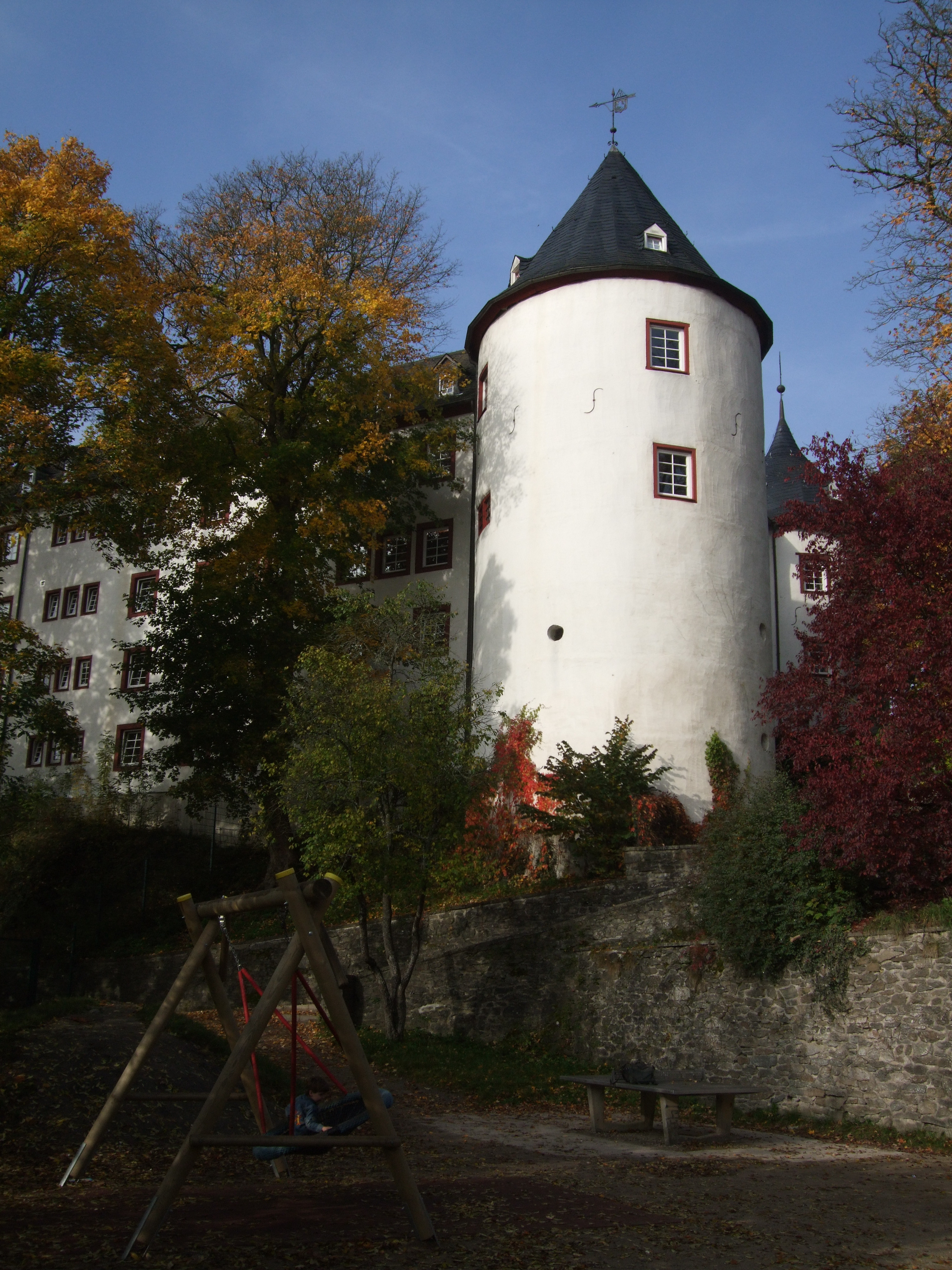 Burg Bilstein, Lennestadt, Germany